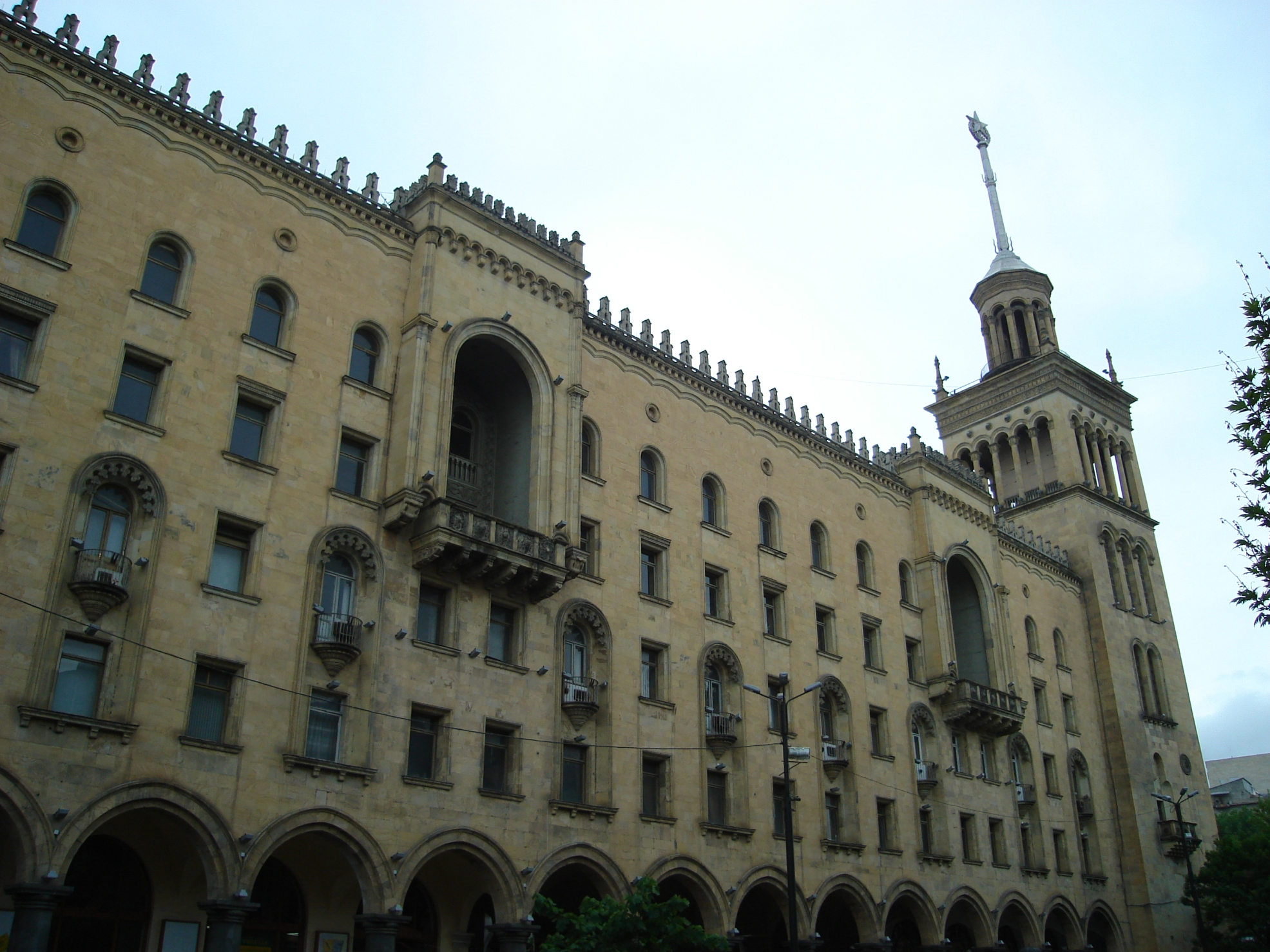 Georgian Academy of Sciences, Tbilisi, Georgia